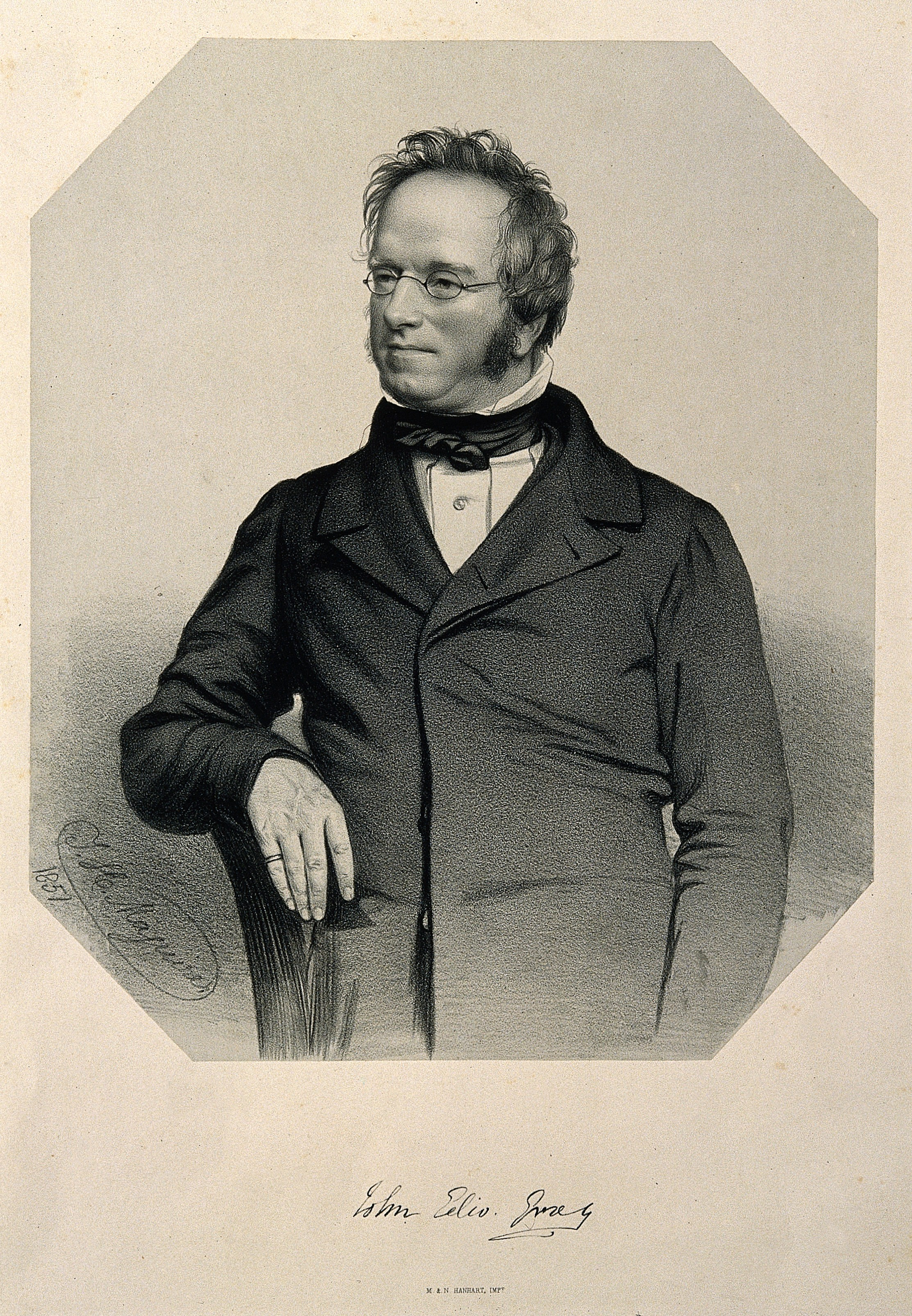 Topic-LCSH: Eyeglasses. Genre/Technique: Portrait prints. Lithographs. Subject name: Gray, John Edward, 1800-1875.